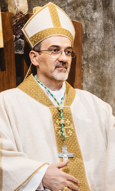 Msgr. Pierbattista Pizzaballa the day of his episcopal consecration